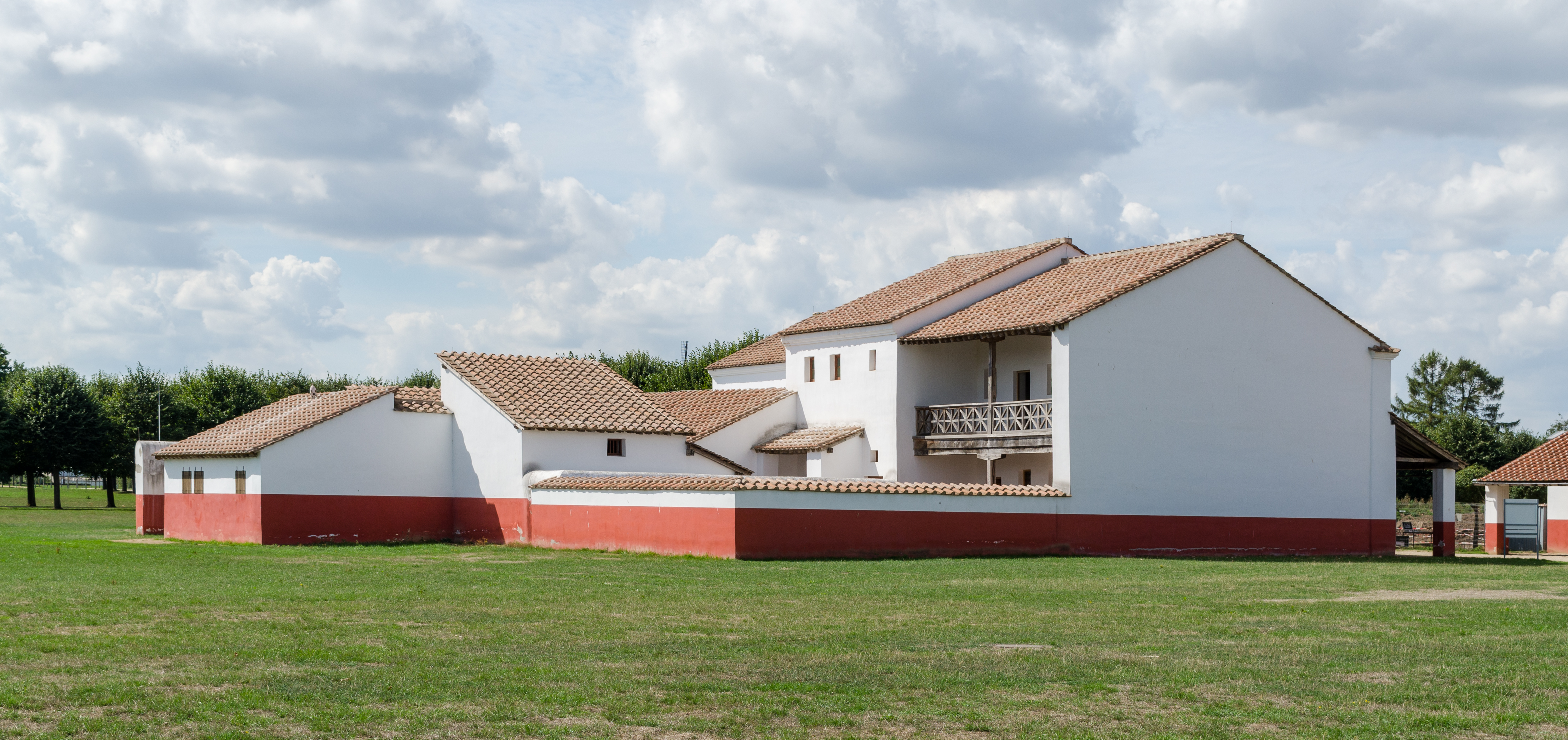 Xanten (North Rhine-Westphalia, Germany) – Archaeological Park – reconstructed craftsman's houses in the ancient Roman settlement Colonia Ulpia Traiana